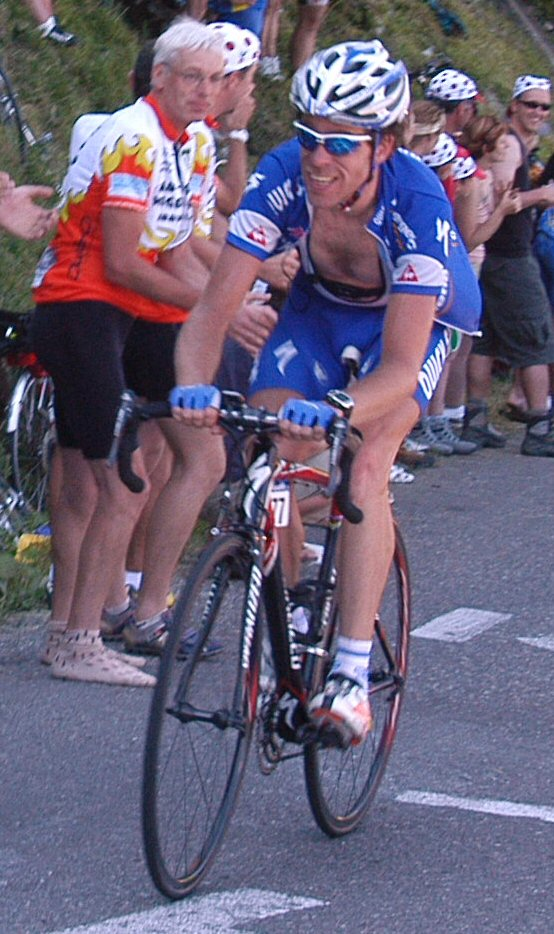 Bram Tankink at stage 7 of the Tour de France 2007 on the Col de la Colombière.